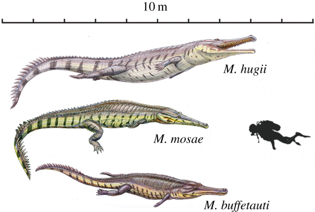 Life reconstructions showing the maximum body lengths of the three Machimosaurus species present in the Kimmeridgian–Tithonian of Europe. The human diver is 1.8 m in height. The life reconstructions were made by Dmitry Bogdanov.